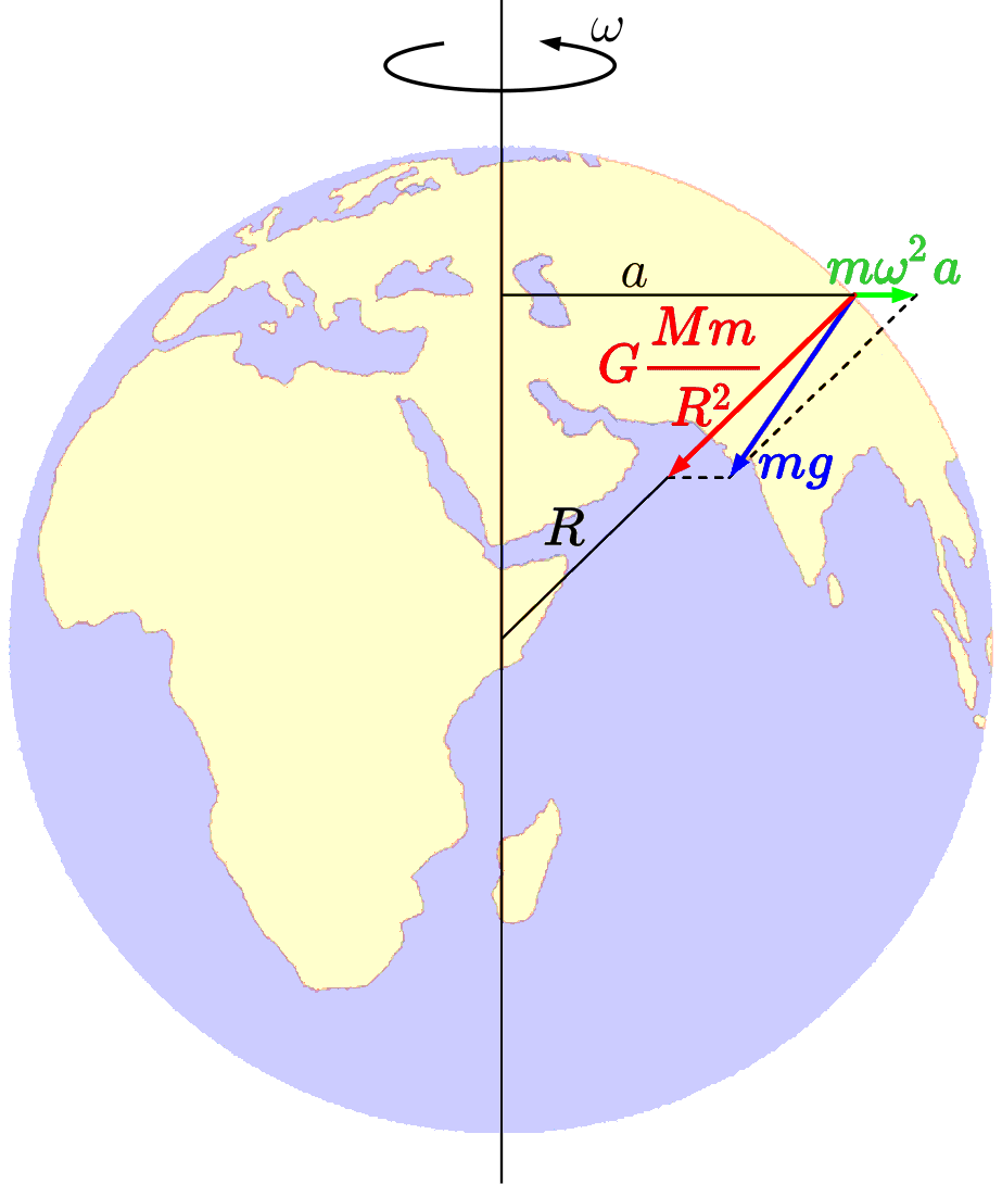 The figure illustrates the contributions of gravitational and centrifugal forces on the gravity on Earth